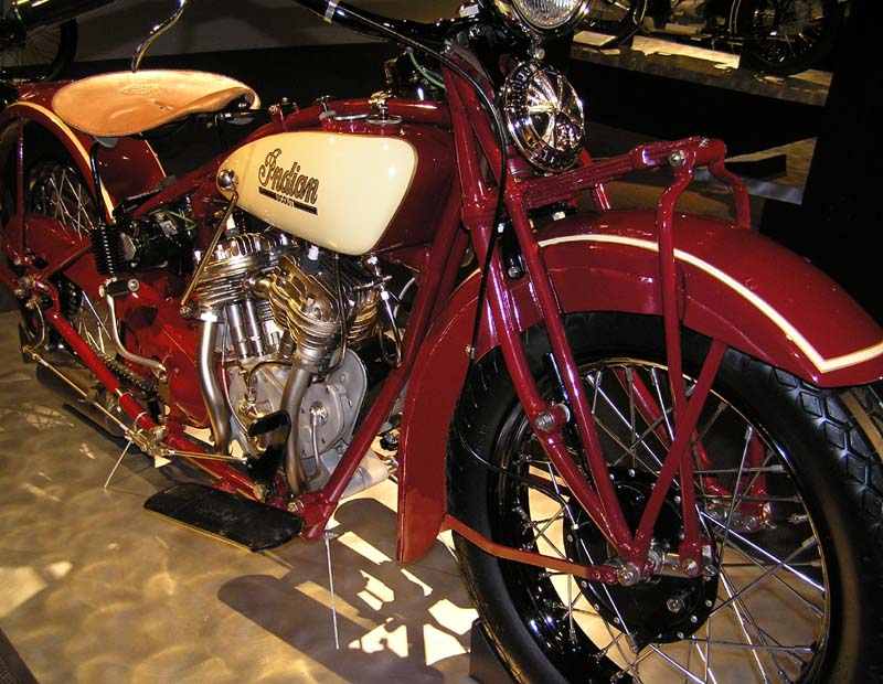 File title is incorrect. 1931 Indian Scout - The Art of the Motorcycle - Memphis. 45 cu. in. Power: 30 hp. Top speed: 75 mph. Restoration by Walker Machine.